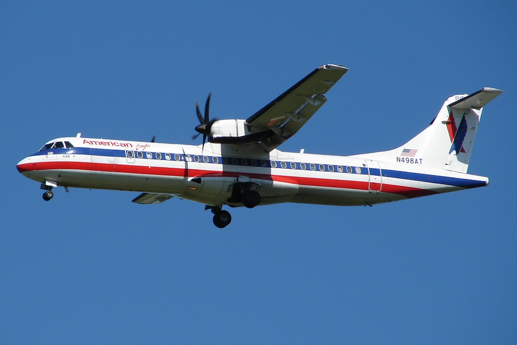 American Eagle ATR-72 [N498AT]